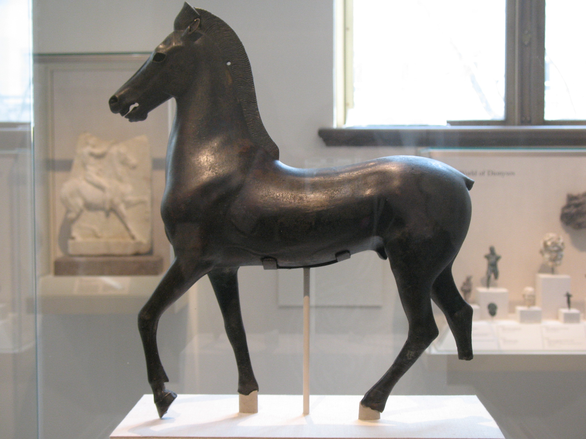 Bronze statuette of a horse, late 2nd-1st century B.C. Greek Bronze; H. 15 13/16 in. (40.2 cm) The Metropolitan Museum of Art, New York, Fletcher Fund, 1923 (23.69) View at the Metropolitan Museum of Art website Wikipedia Loves Art at the Metropolitan Museum of Art This photo of item # 23.69 at the Metropolitan Museum of Art was contributed under the team name "niborean" as part of the Wikipedia Loves Art project in February 2009. Metropolitan Museum of Art The original photograph on Flickr was taken by niborean—please add a comment to the original Flickr page whenever a use has been made on Wikipedia or another project. Project galleries on Flickr: this institution, this team